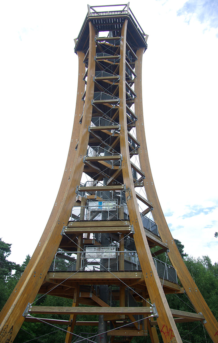 Look-out and landmark at the lake Felixsee in Bohsdorf, Brandenburg, Germany